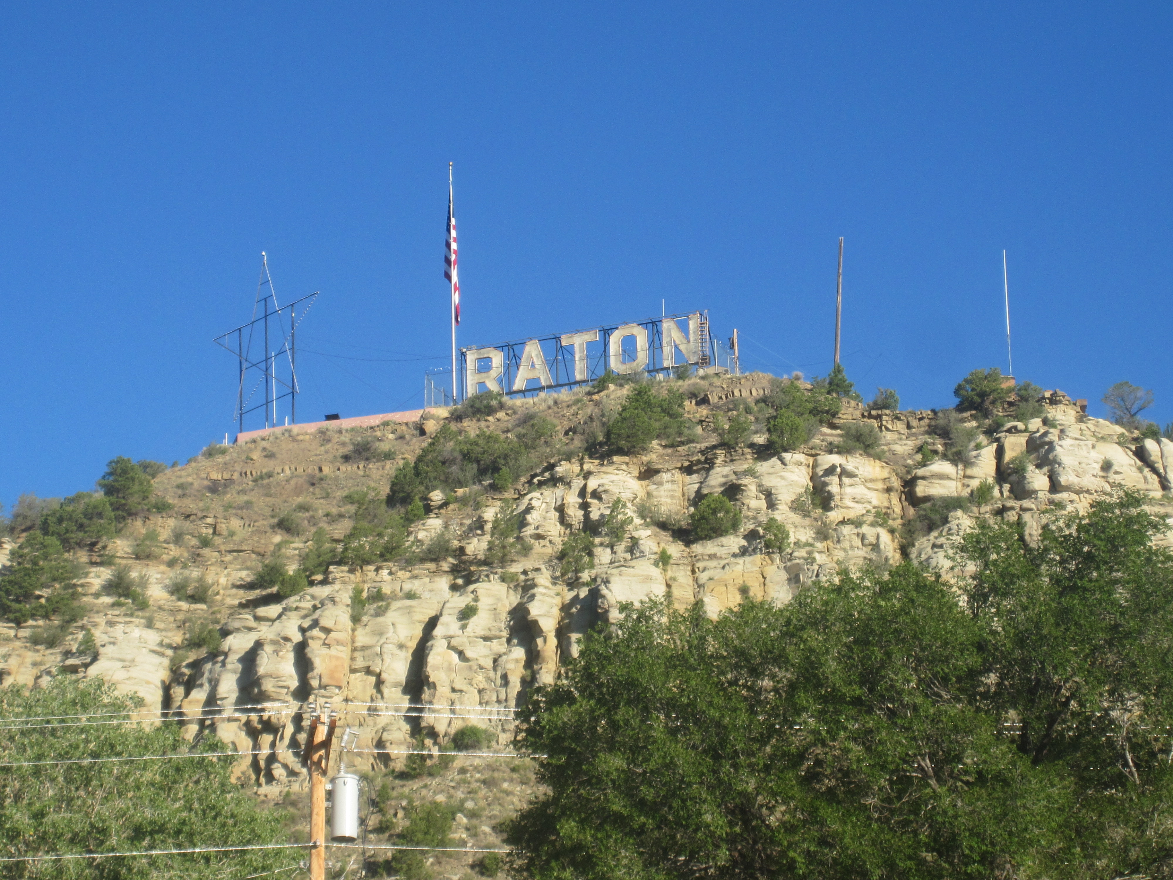 I took photo in Raton, NM, with Canon camera.